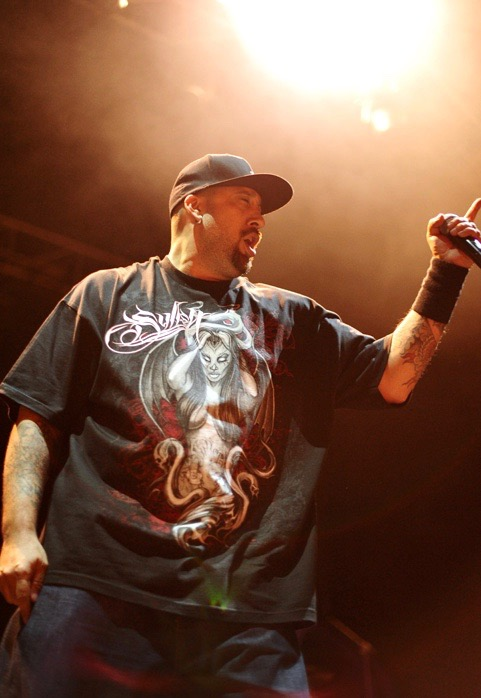 You check this photo in Issue 1236 in Xpress Magazine.